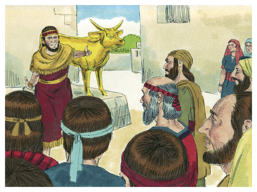 Biblical illustration of First Book of Kings Chapter 12